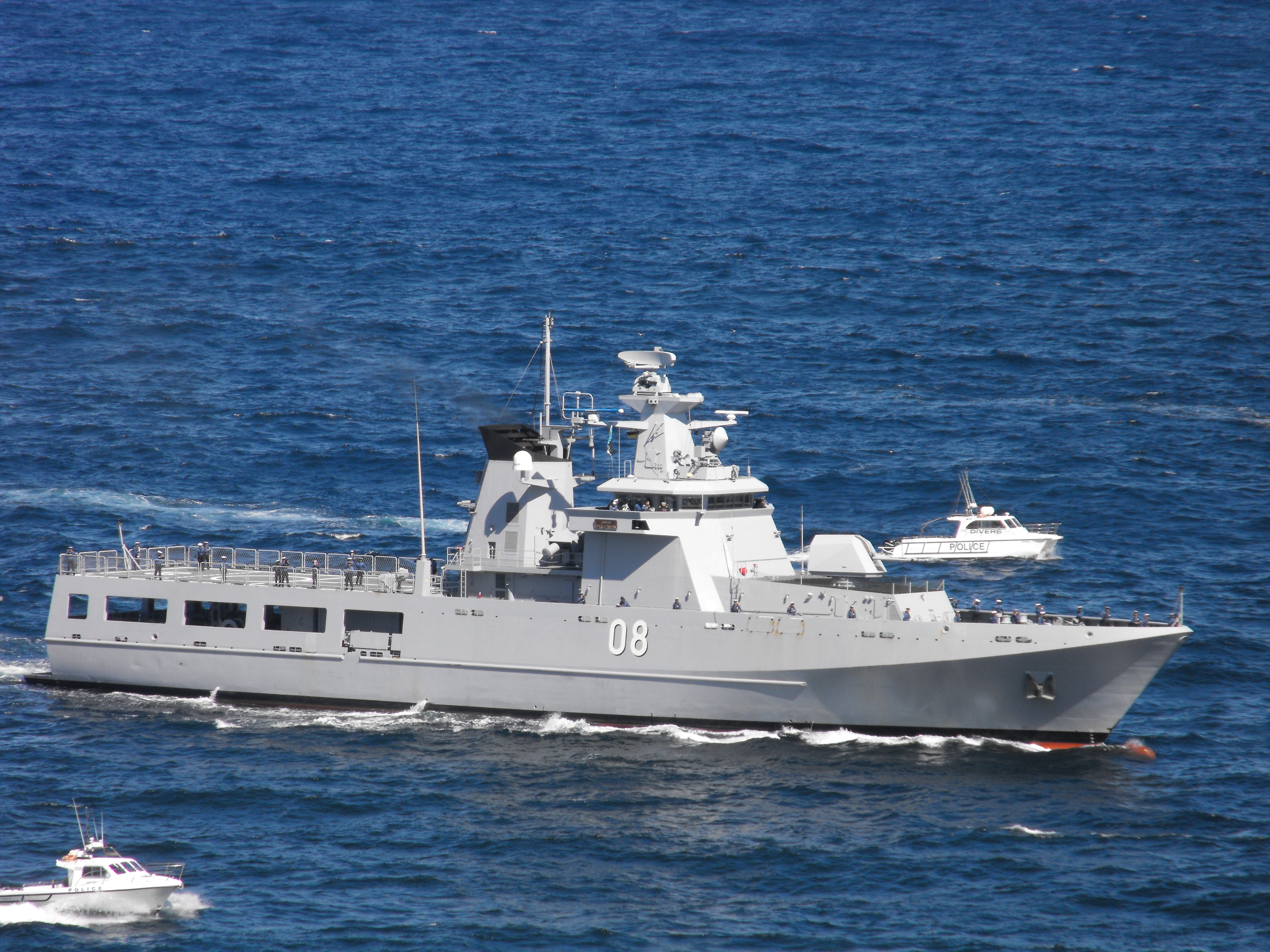 Photographs taken during day 2 of the Royal Australian Navy International Fleet Review 2013.